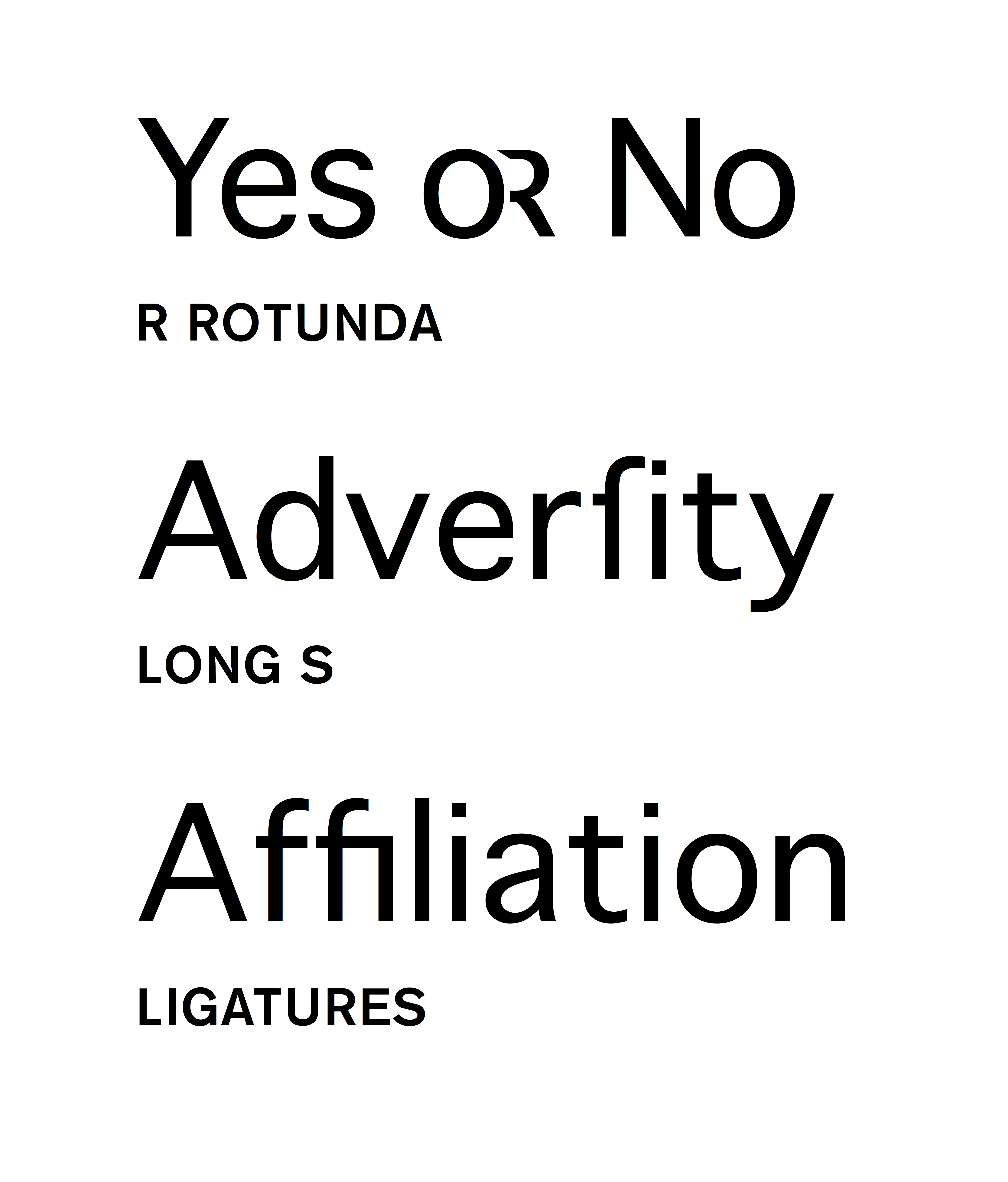 Unusual features of the "Geneva" font included with Mac OS X. How many sans-serifs include a "long s" or "R rotunda"?